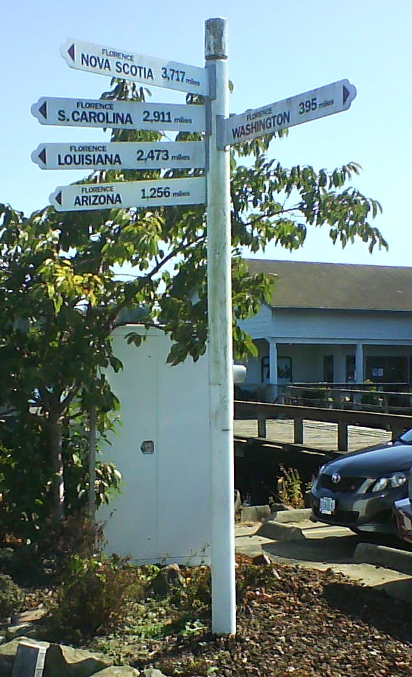 distances to other Florences from Florence OR